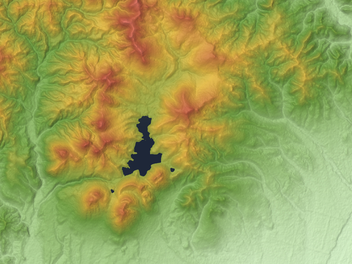 Shikaribetsu Volcano Group in Hokkaido, Japan.